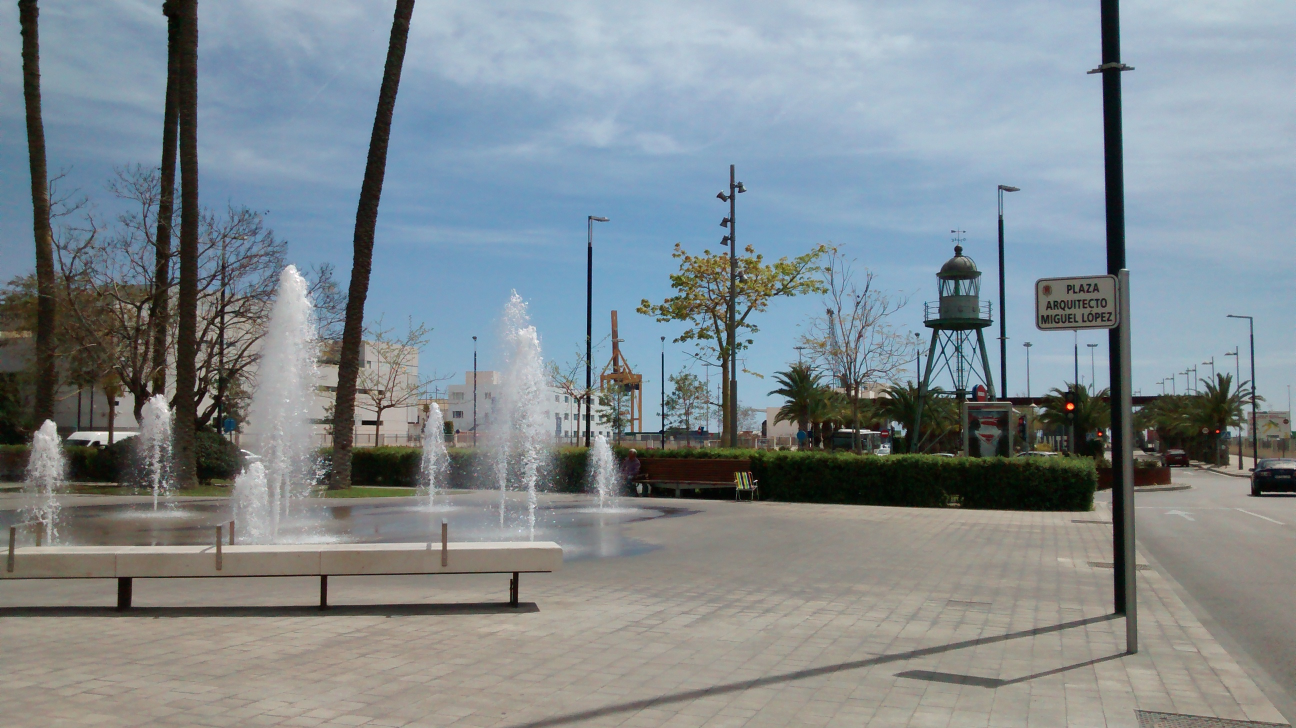 Square in Alicante, Spain